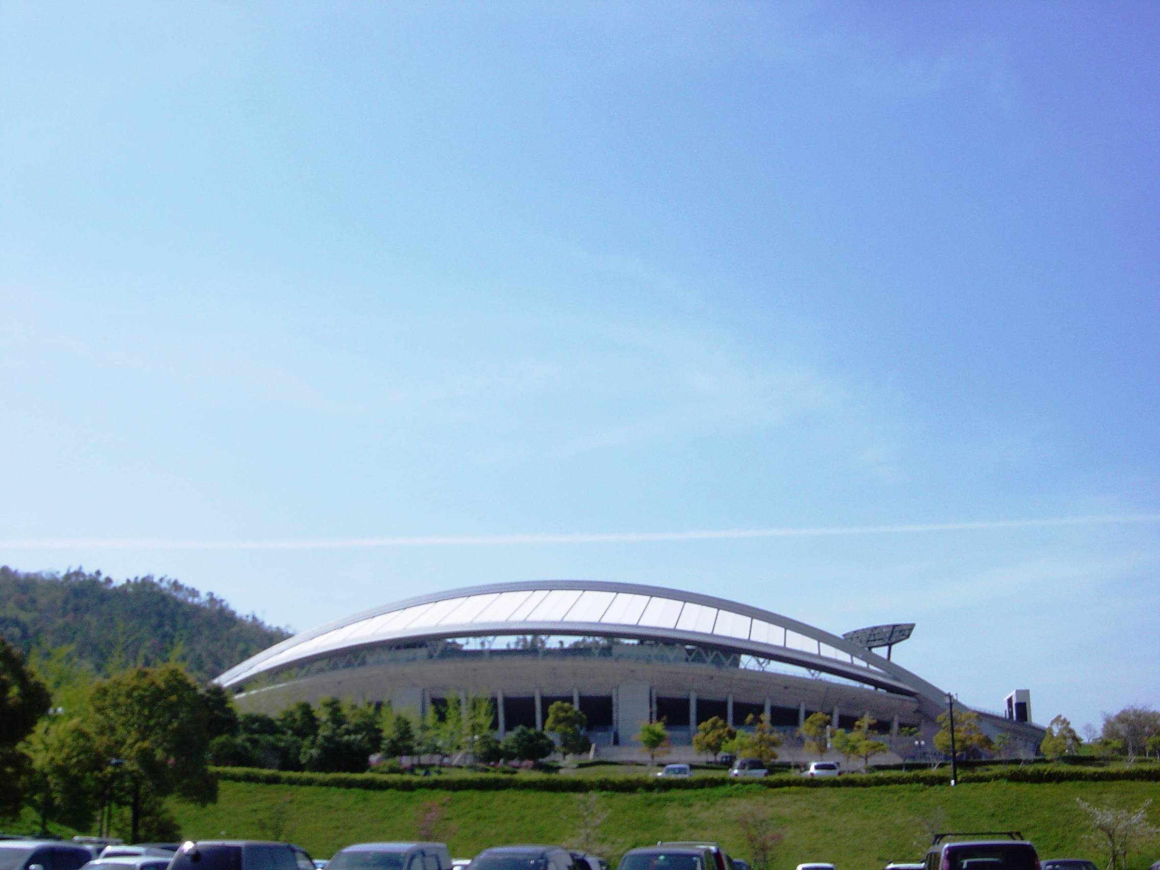 Hiroshima Big Arch is located in Hiroshima, Japan. It is used by Sanfrecce Hiroshima.